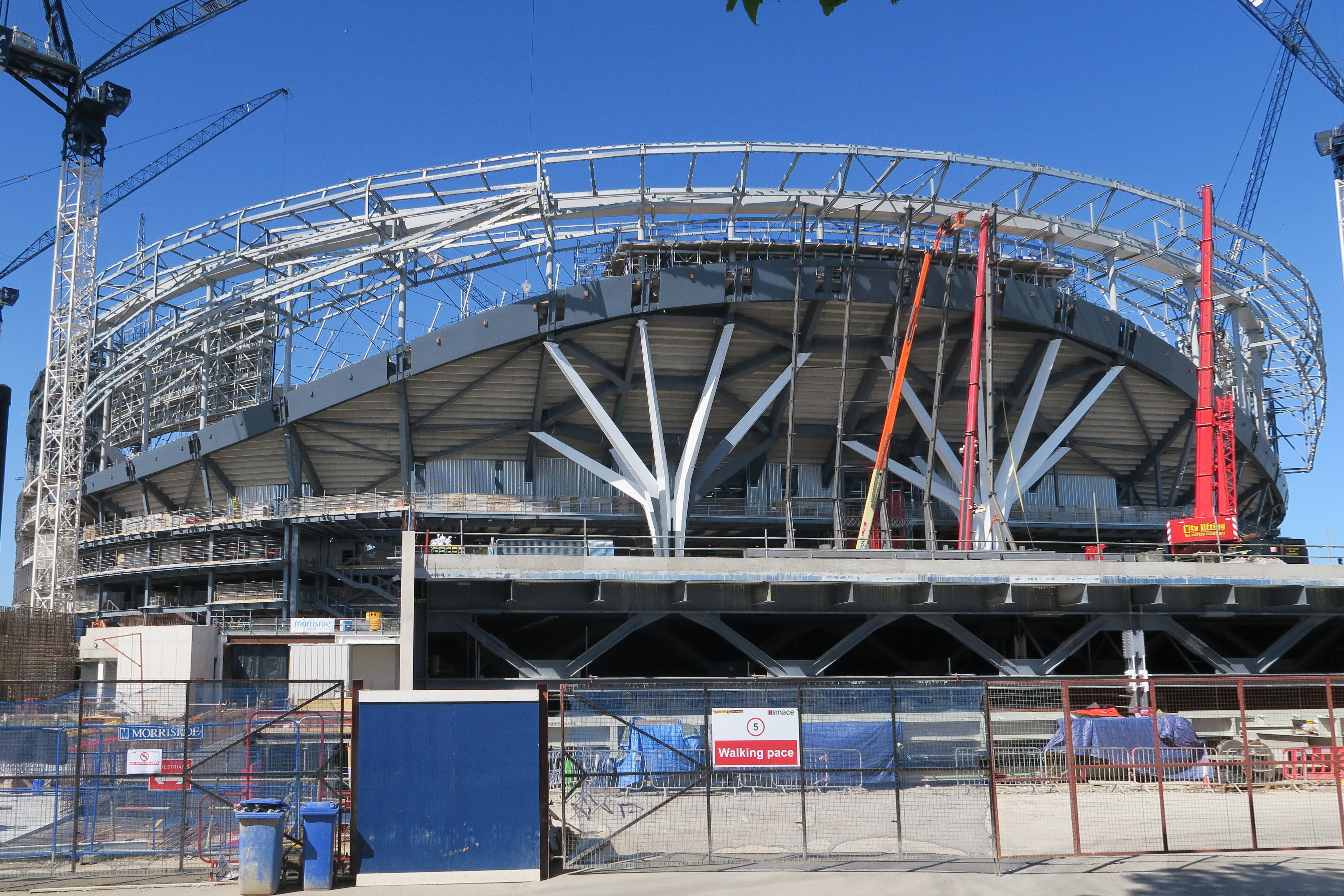 Tottenham Hotspur Stadium under construction in May 2018, view from Park Lane. South podium of the stadium in the foreground, below which is the retractable pitch.